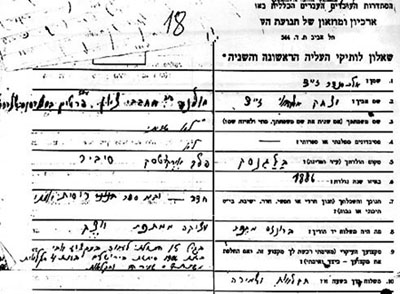 part of a personal questionnaire filled by Alexander Zaïd